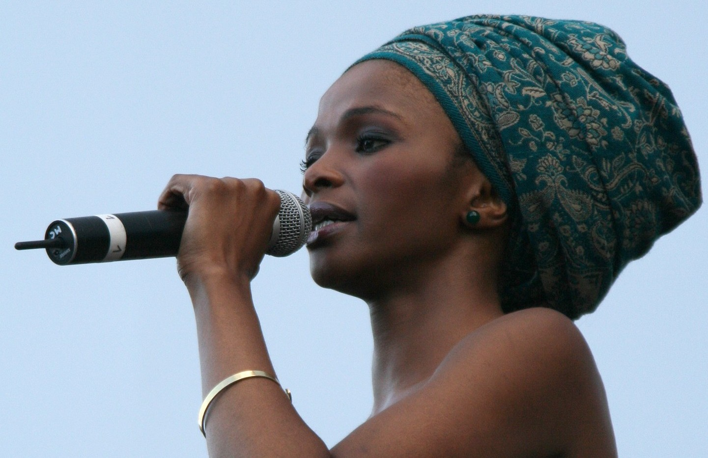 South African singer Simphiwe Dana at the Rathausplatz in Vienna (Jazz-Fest Wien)